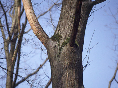 Branch collar with dying branch